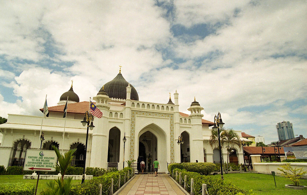 Kapitan Keling Mosque, Penang, Malaysia